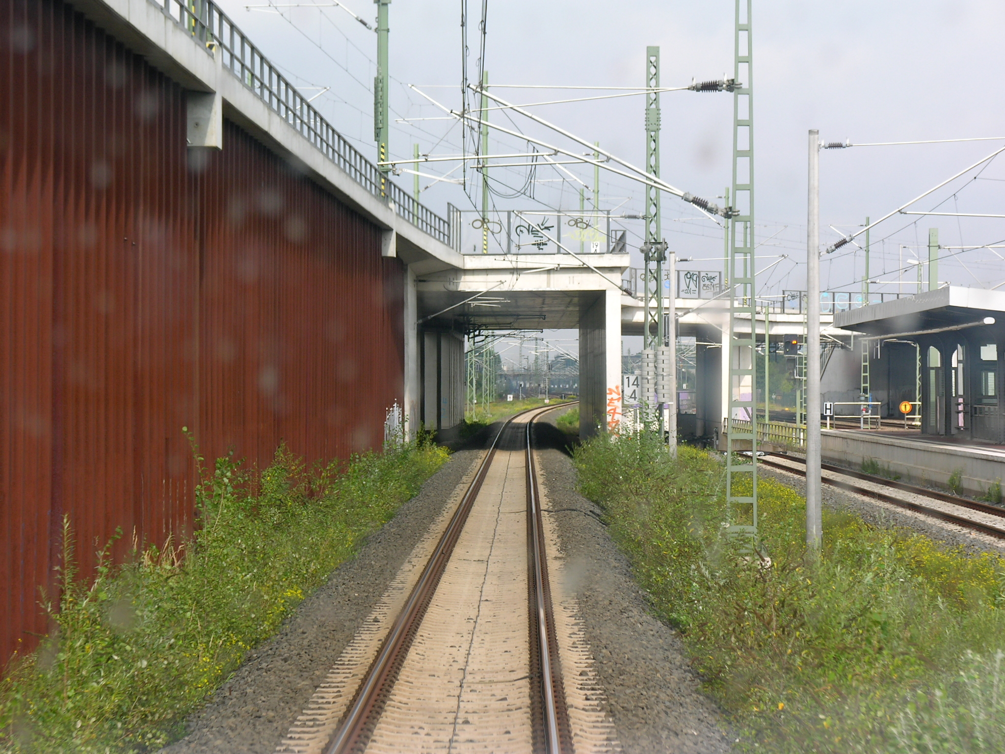 Germany, ICE from Frankfurt to Cologne in the driver's cabin, train station Cologne Porz-Wahn